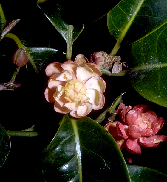 Idiospermum australiense, the Idiot Fruit or Ribbonweed, is one of the most primitive of flowering plants. It is an ever-green treen, 20-30m tall, and only occurs in a few areas of the Daintree rainforest in far north Queensland. The large nut-like seeds are poisonous.